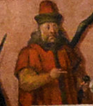 Wartislaw II of Pomerelia